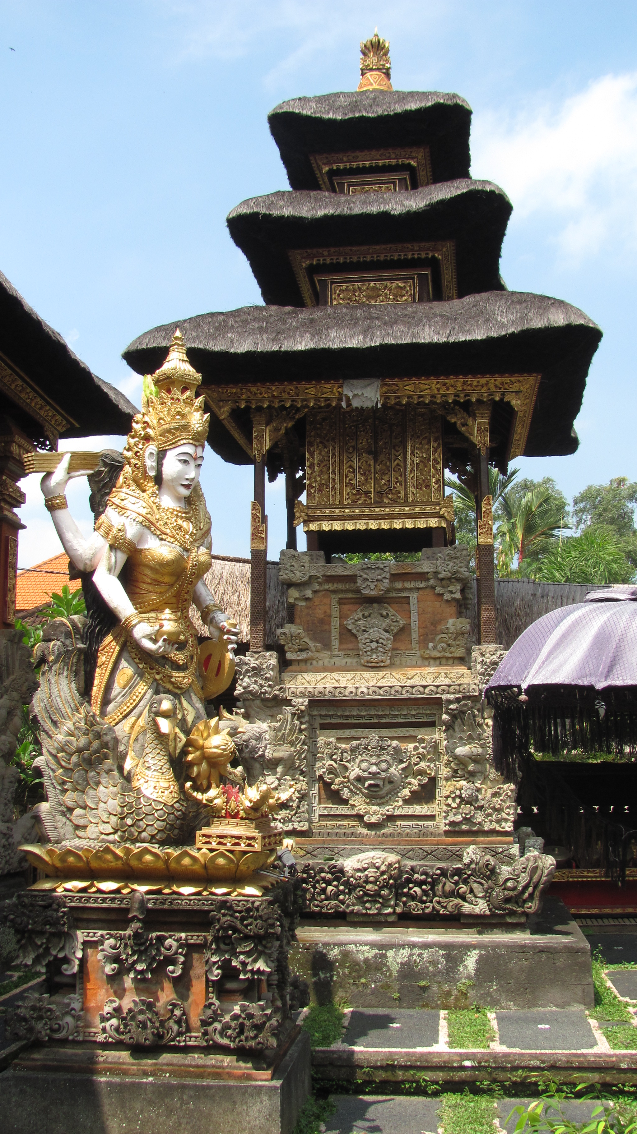 Statue of Sri Saraswathi, Hindu goddess in "Pura Sri Saraswathi" Temple in Ubud, Bali, Indonesia